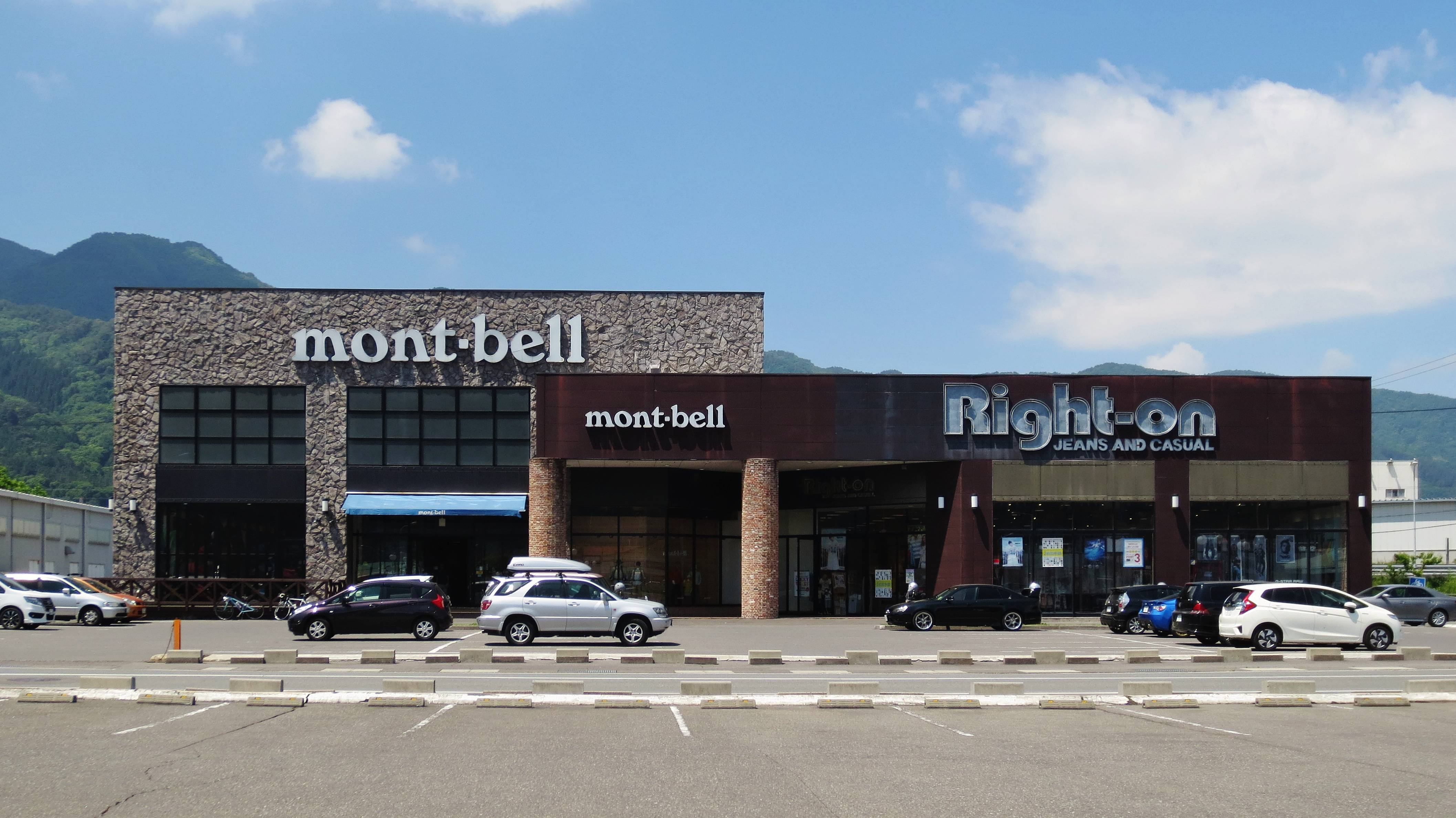 Right-on Suwa Station Park Store (right) and mont-bell Suwa Store (left).